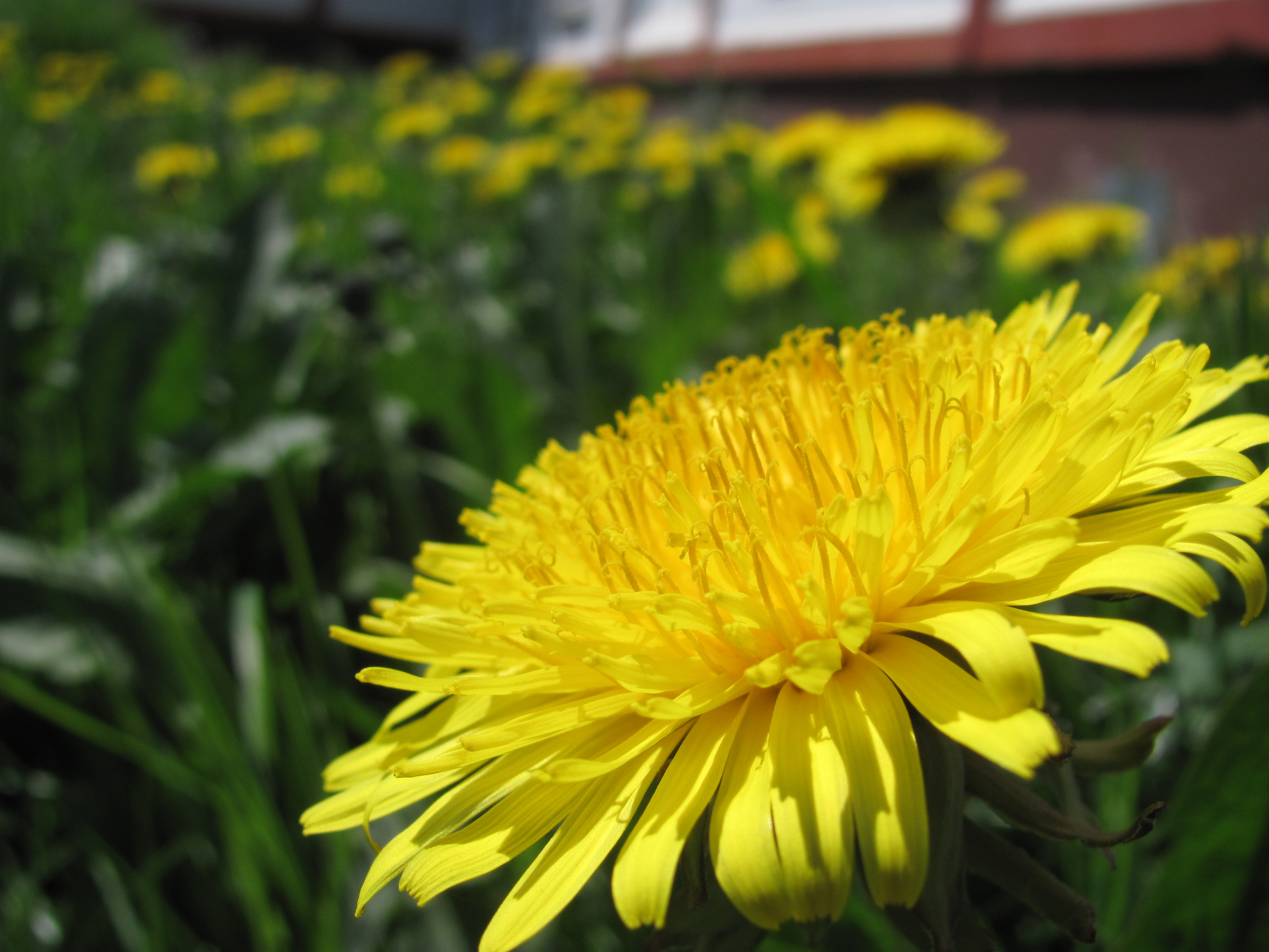 Taraxácum officinále growing in Sakhalin, Russia.